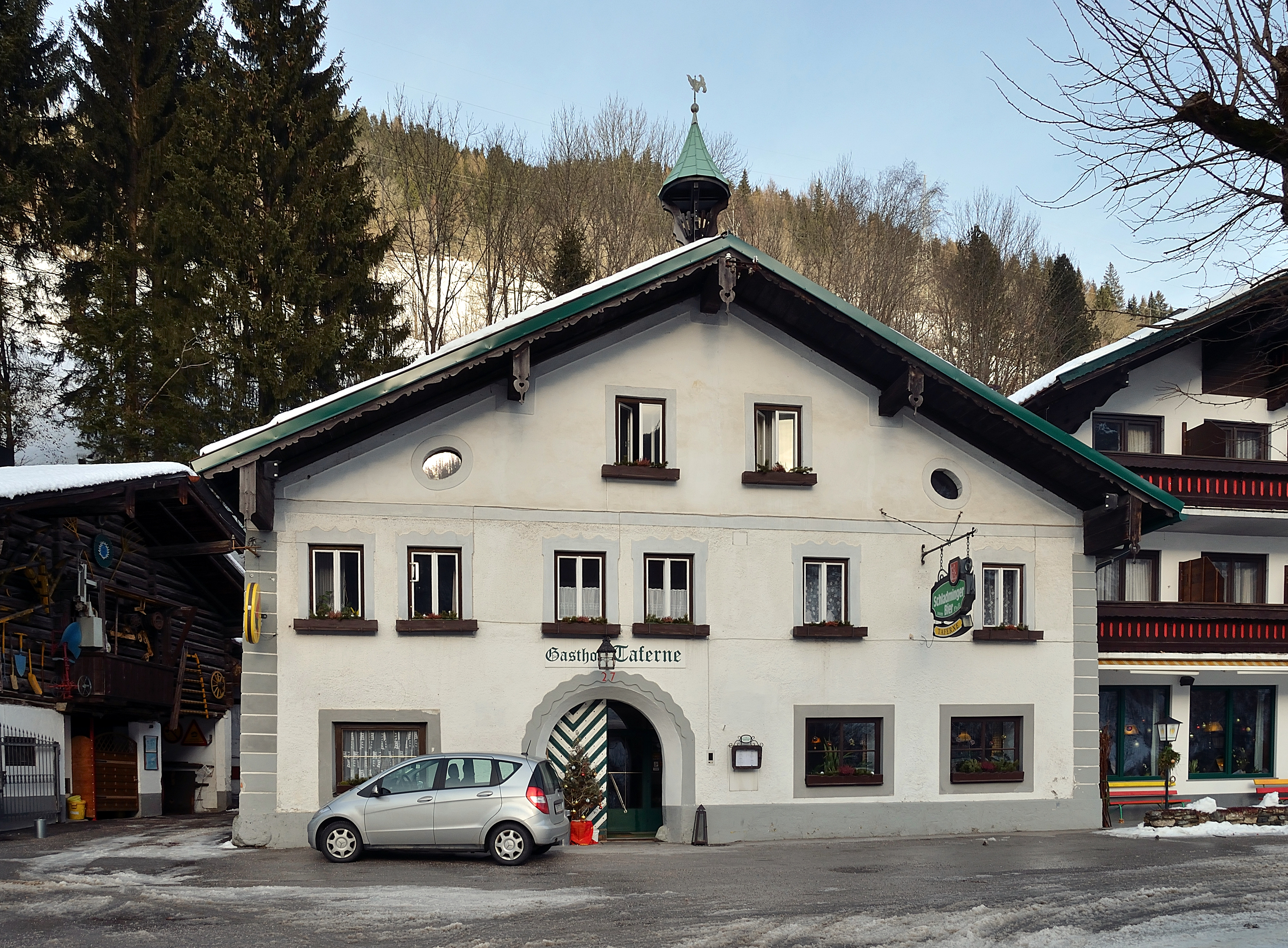 in Mandling, a village at the border of federal states Salzburg (with city of Radstadt) and Styria (city of Schladming).